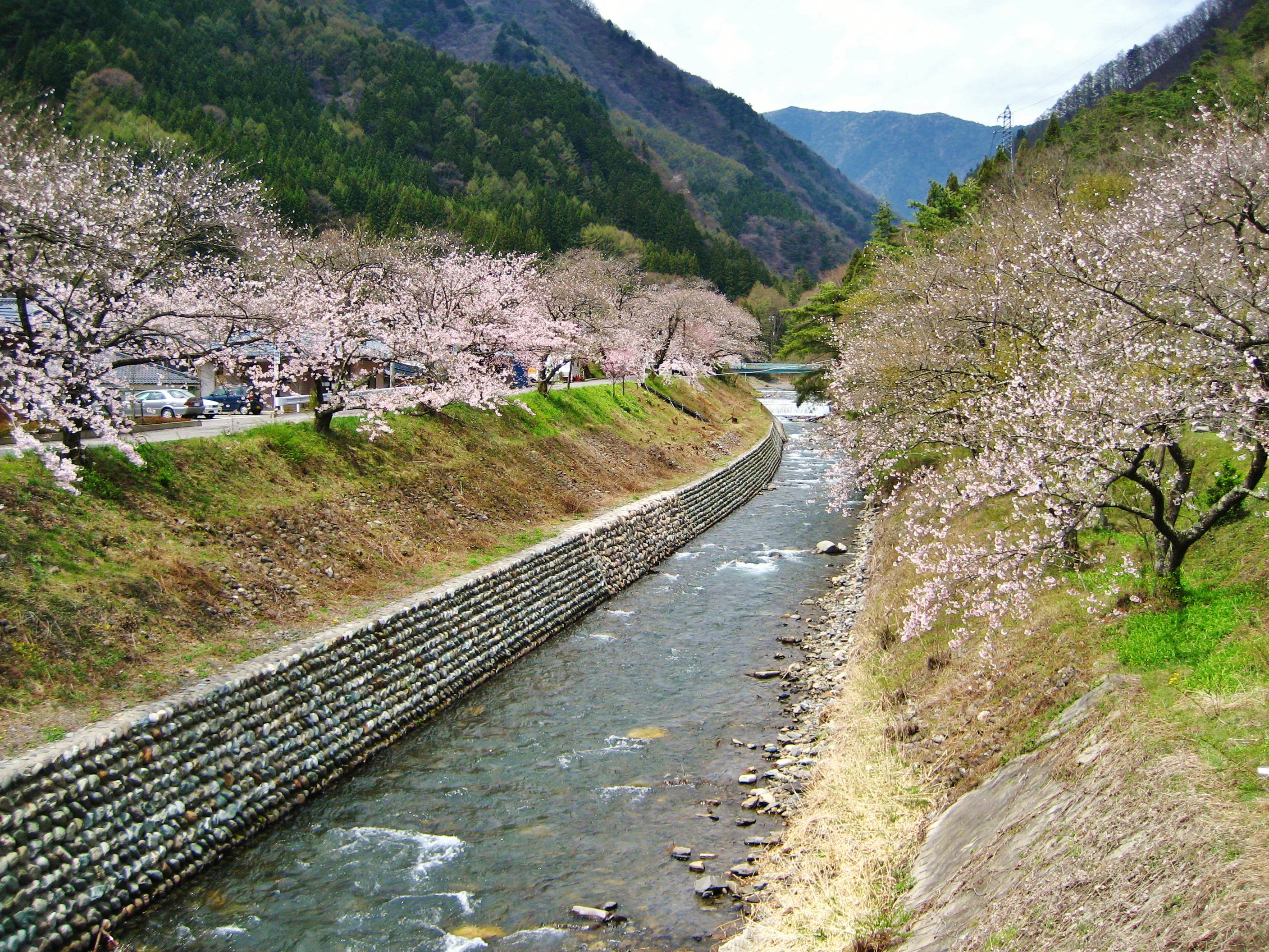 Shimashimadani River.